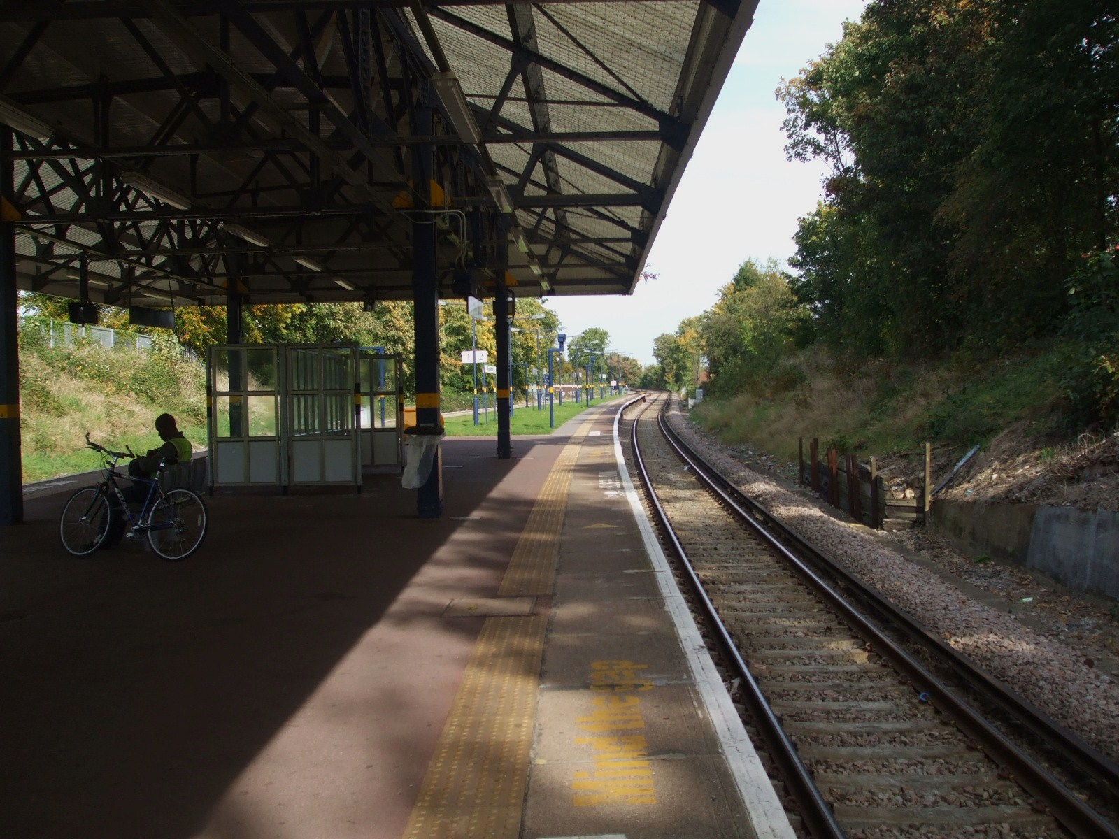 West Sutton station looking north